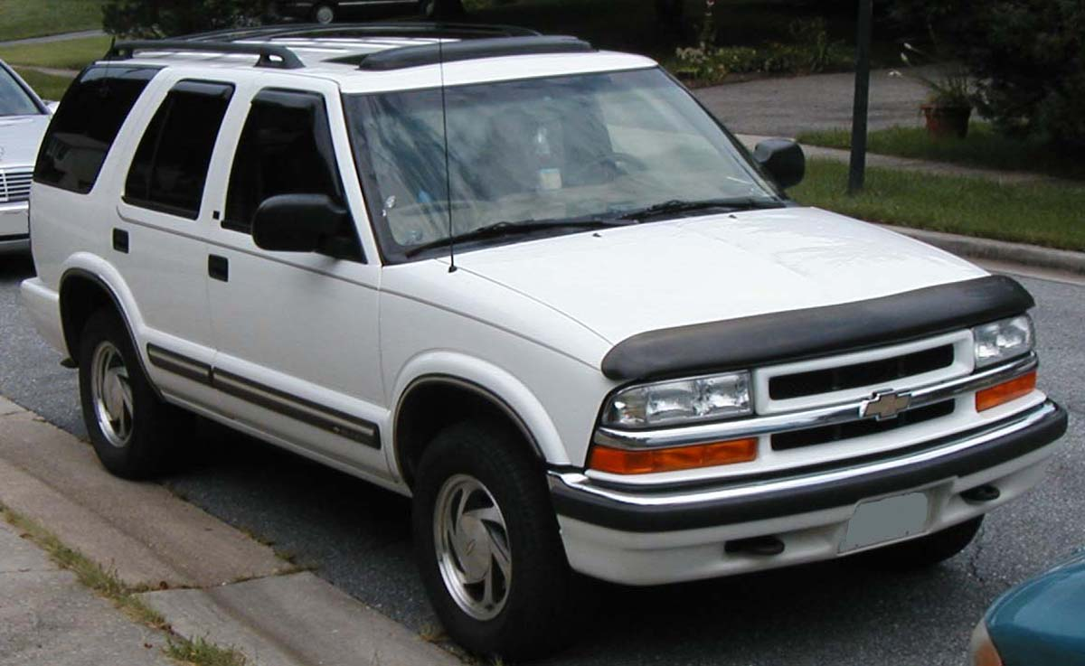 1995-2005 Chevrolet S-10 Blazer photographed in USA.